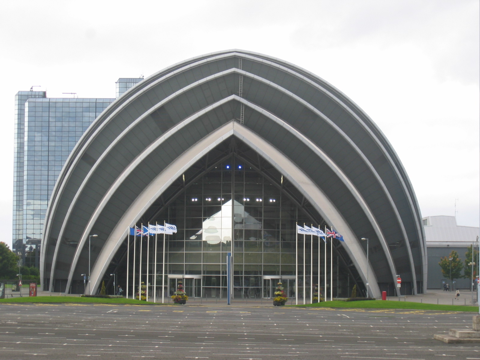 The Clyde Auditorium, also known as The Armadillo, is a concert and public event venue in Glasgow, Scotland. Built by Norman Foster.